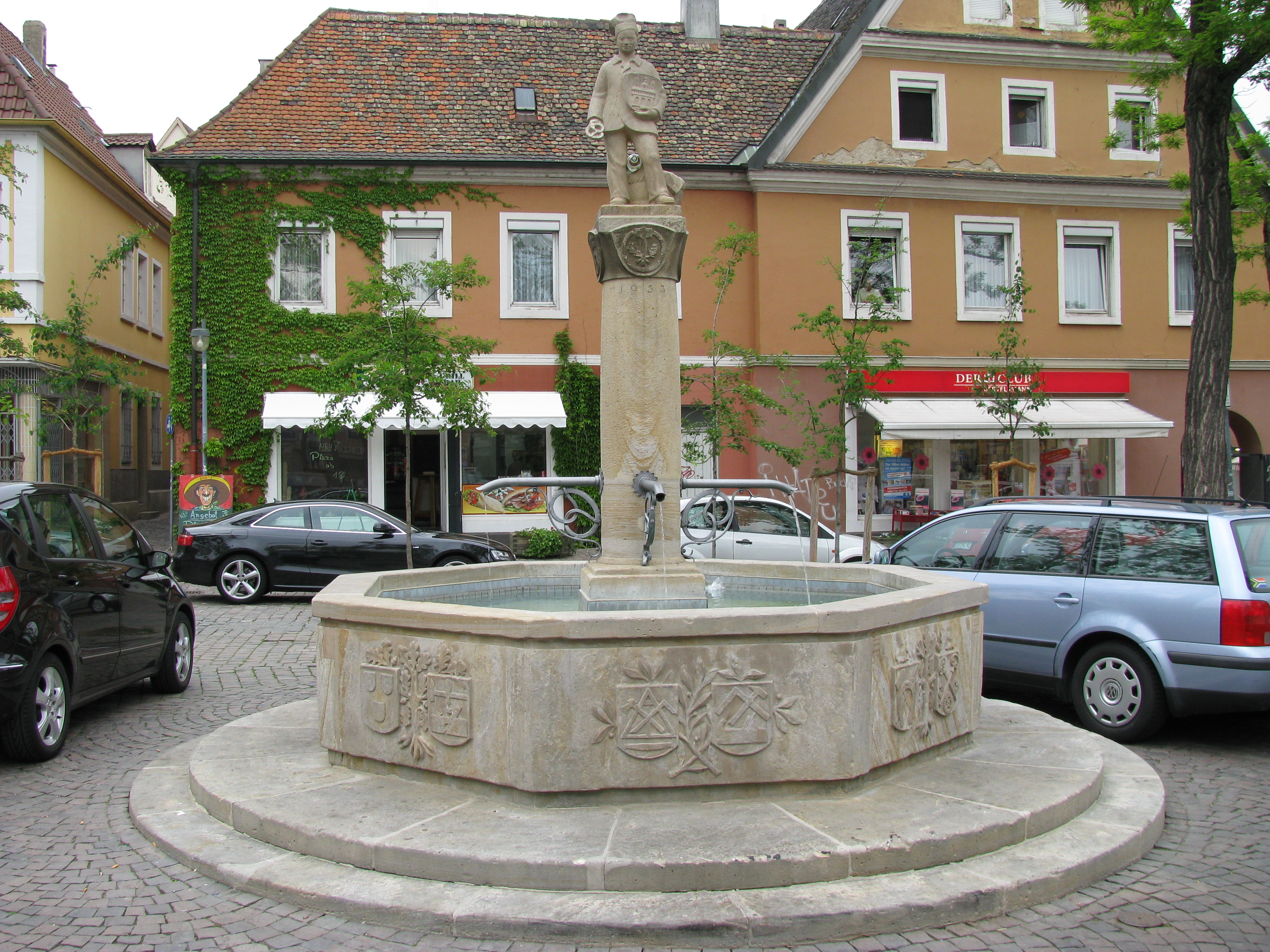 Speyer: Handwerkerbrunnen (Craftsmen's Fountain) with Brezelbub (Pretzelboy) on Königsplatz